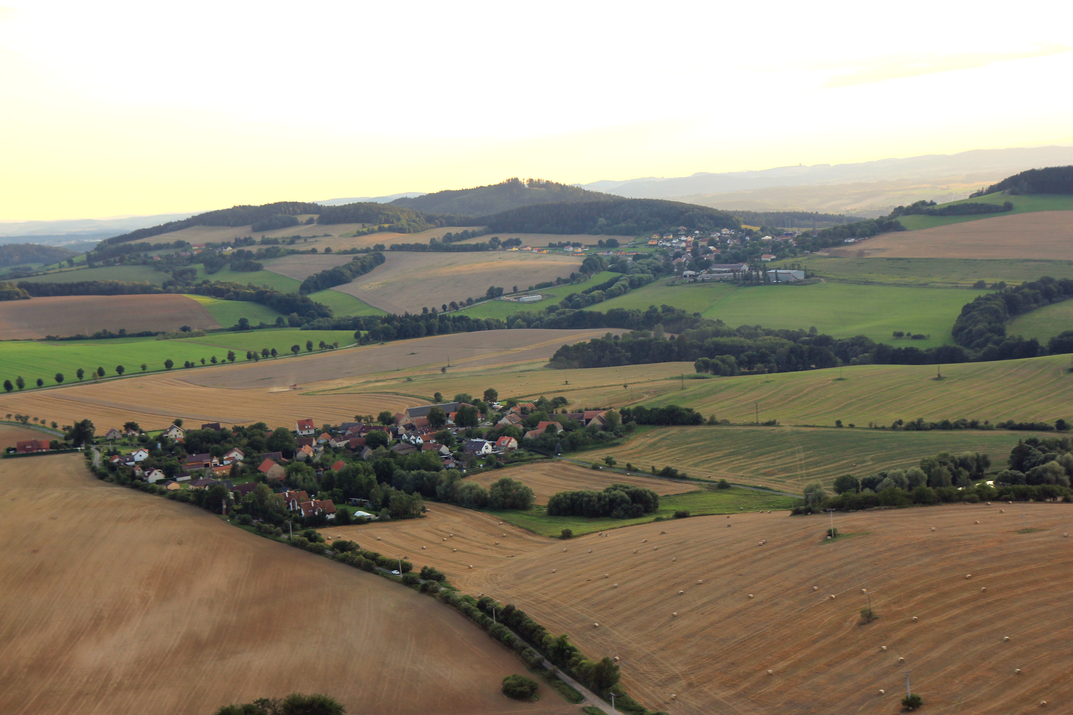 Aerial view of Bezděkov, part of Loket village, Czech Republic